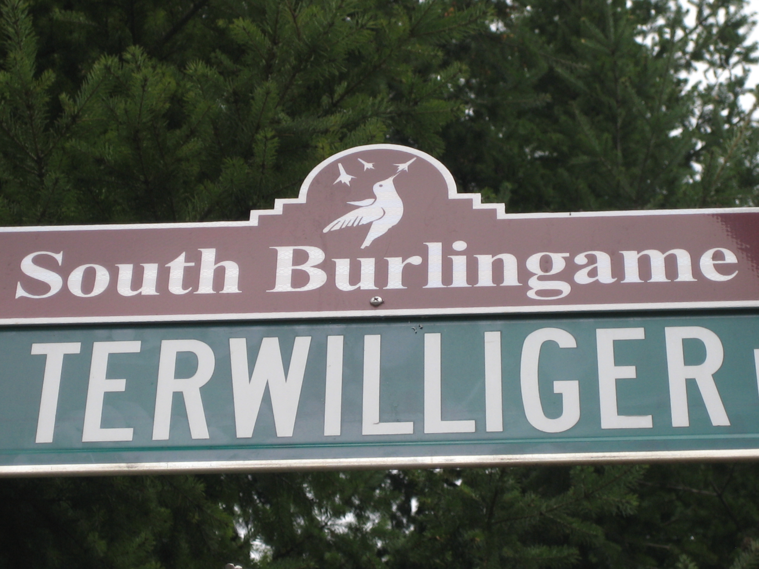 South Burlingame neighborhood street sign topper, Portland, Oregon